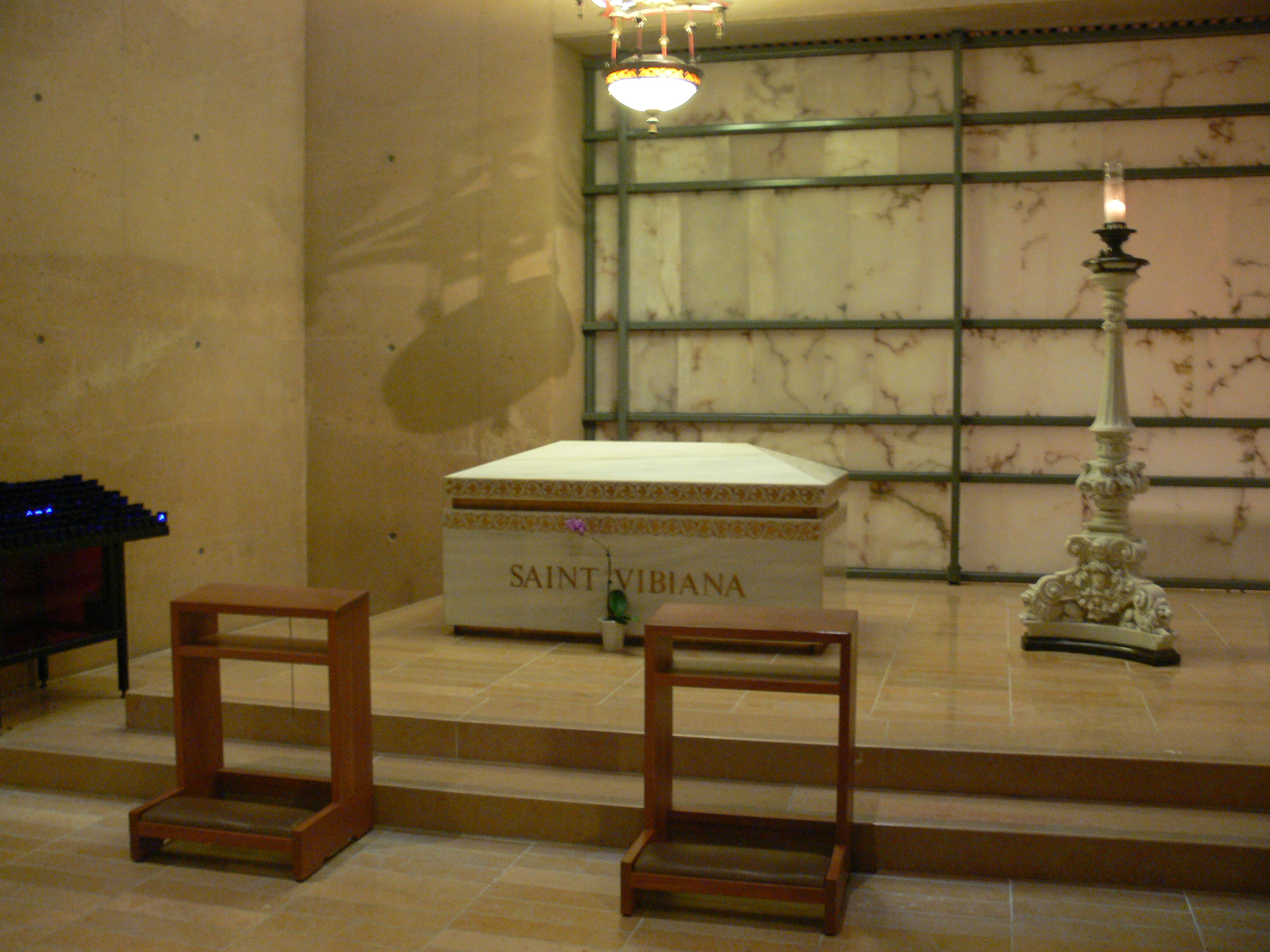 Roman Catholic Cathedral of Our Lady of the Angels, Los Angeles, California Relic remains of Saint Vibiana